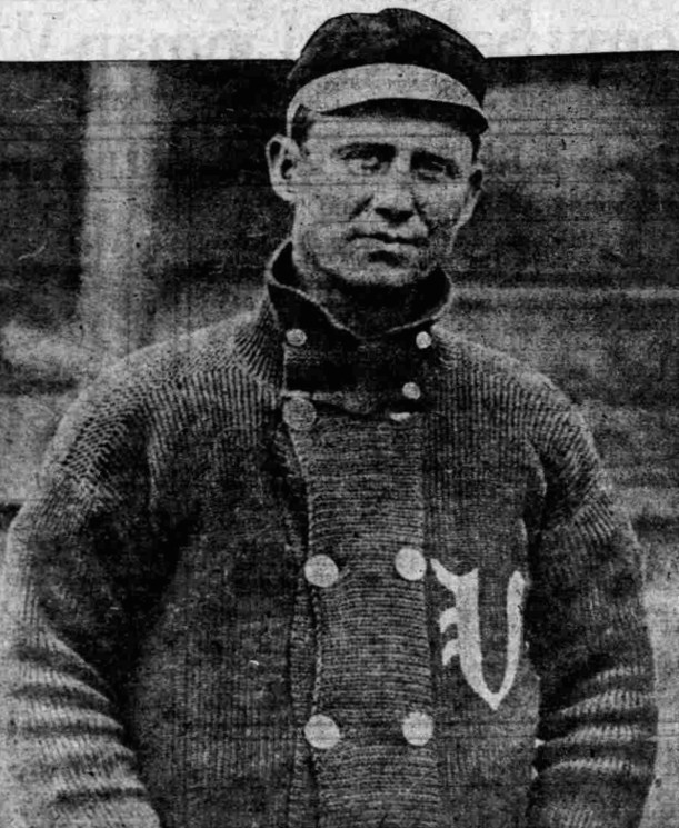 Professional baseball manager Happy Hogan